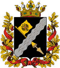 Terek oblast (Russian empire), coat of arms